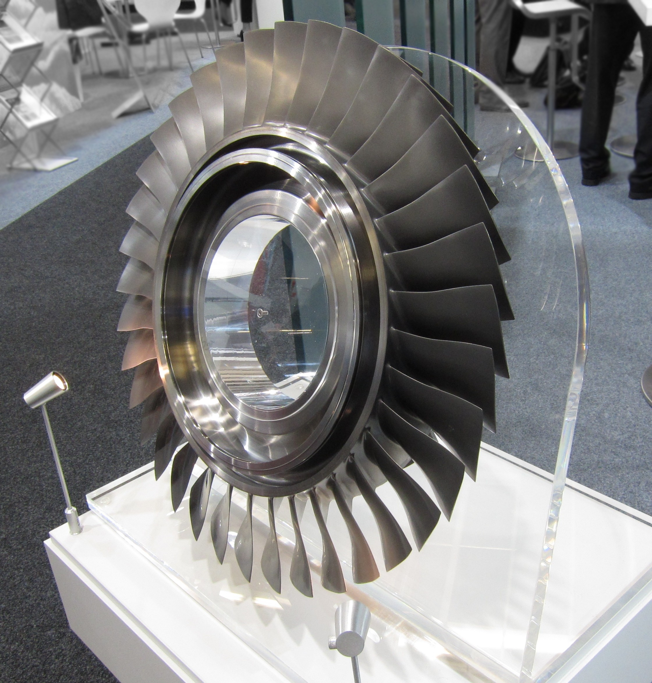 A compressor blisk on display at the Paris Air Show 2013. This is a single-piece item, generated with 3D CNC milling.